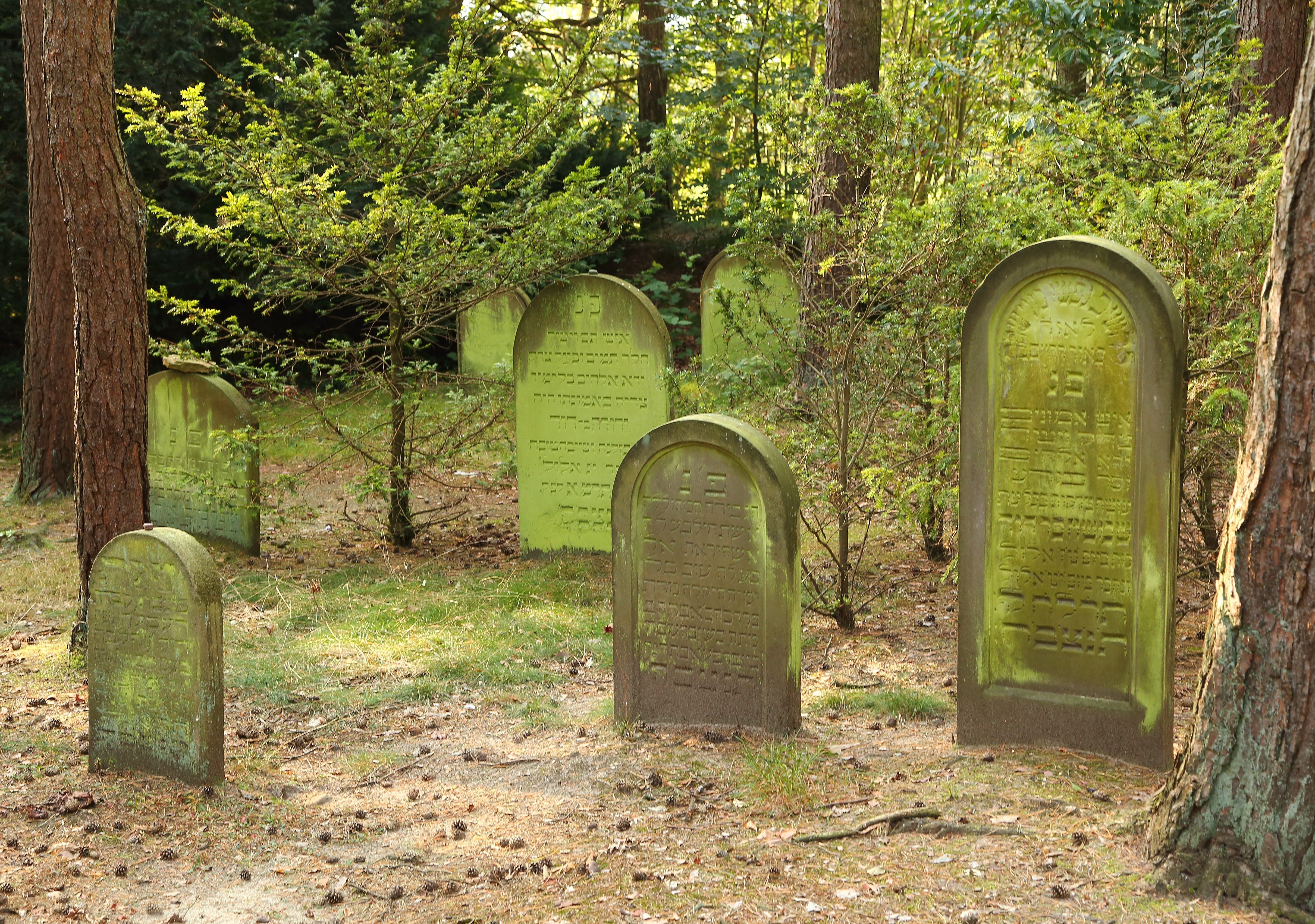 Jewish Cemetery in Westerkappeln, Kreis Steinfurt, North Rhine-Westphalia, Germany.